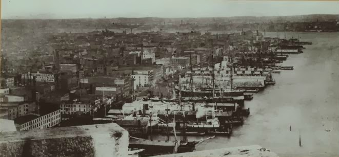 Photograph of the "East River - Shore and skyline - Manhattan - Corlears Hook".